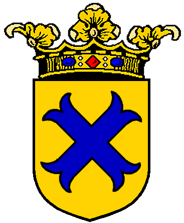 Arms of the ducs de Broglie (d'or à la croix ancrée d'azur). Taken from German Wikipedia. Original art by Benutzer:Anathema.